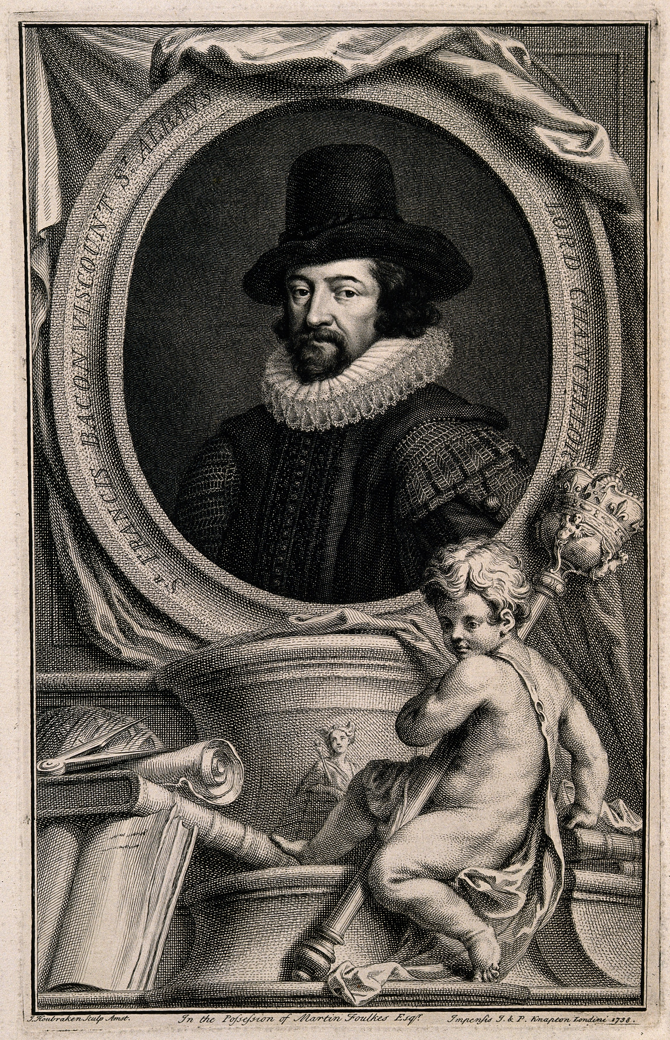 Francis Bacon, Viscount St Albans. Line engraving by J. Houbraken, 1738. Iconographic Collections Keywords: portrait prints; Francis Bacon; engravings; Jacobus Houbraken; bacon, francis, sir. viscount